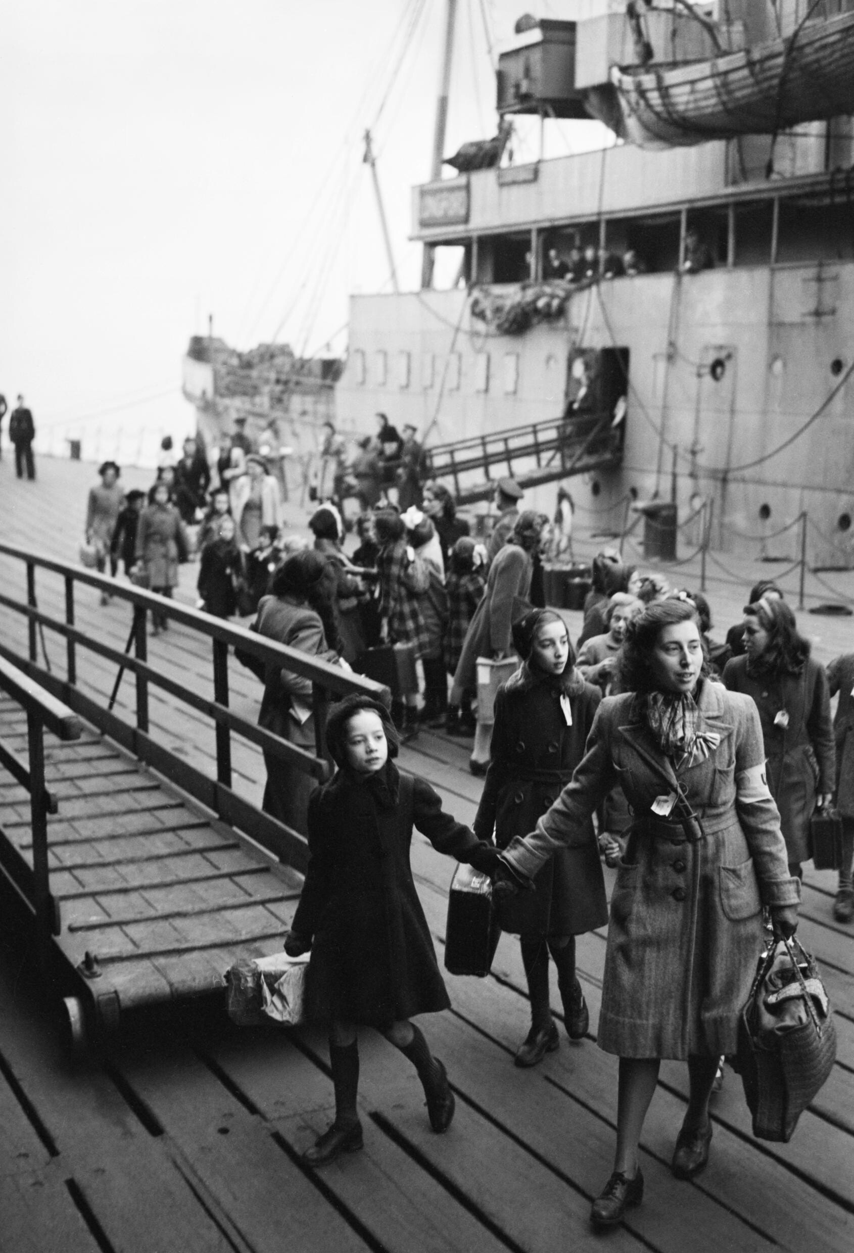 A Dutch school teacher leads a group of refugee children just disembarked from a ship at Tilbury Docks in Essex during 1945. A Dutch school teacher leads a group of refugee children away from the ship upon which they have just arrived. They have berthed at Tilbury Docks in Essex, and will be taken to a rest centre, before onward transport to a hostel.